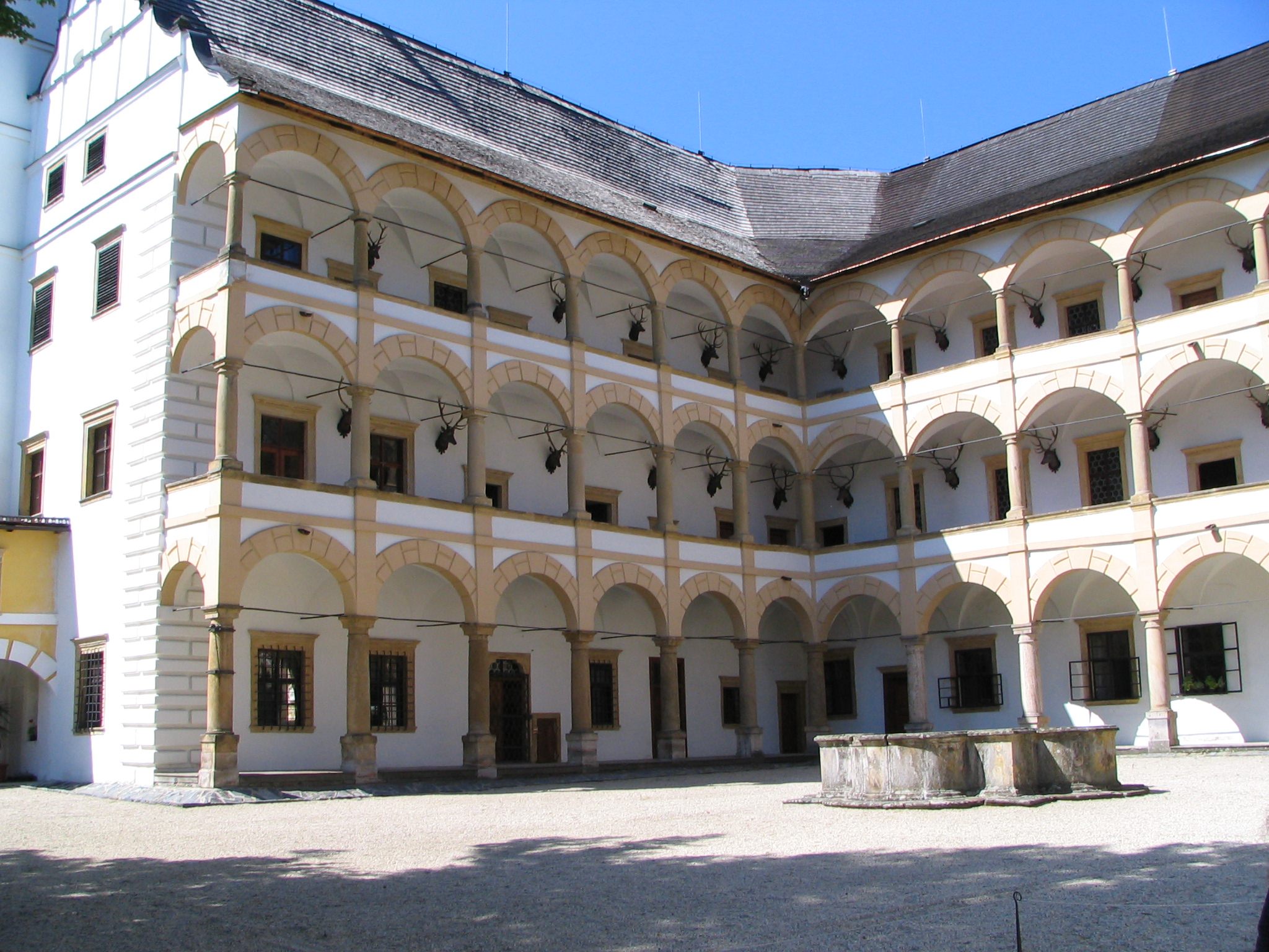 Three-storey arcades of Velké Losiny chateau – view from the courtyard